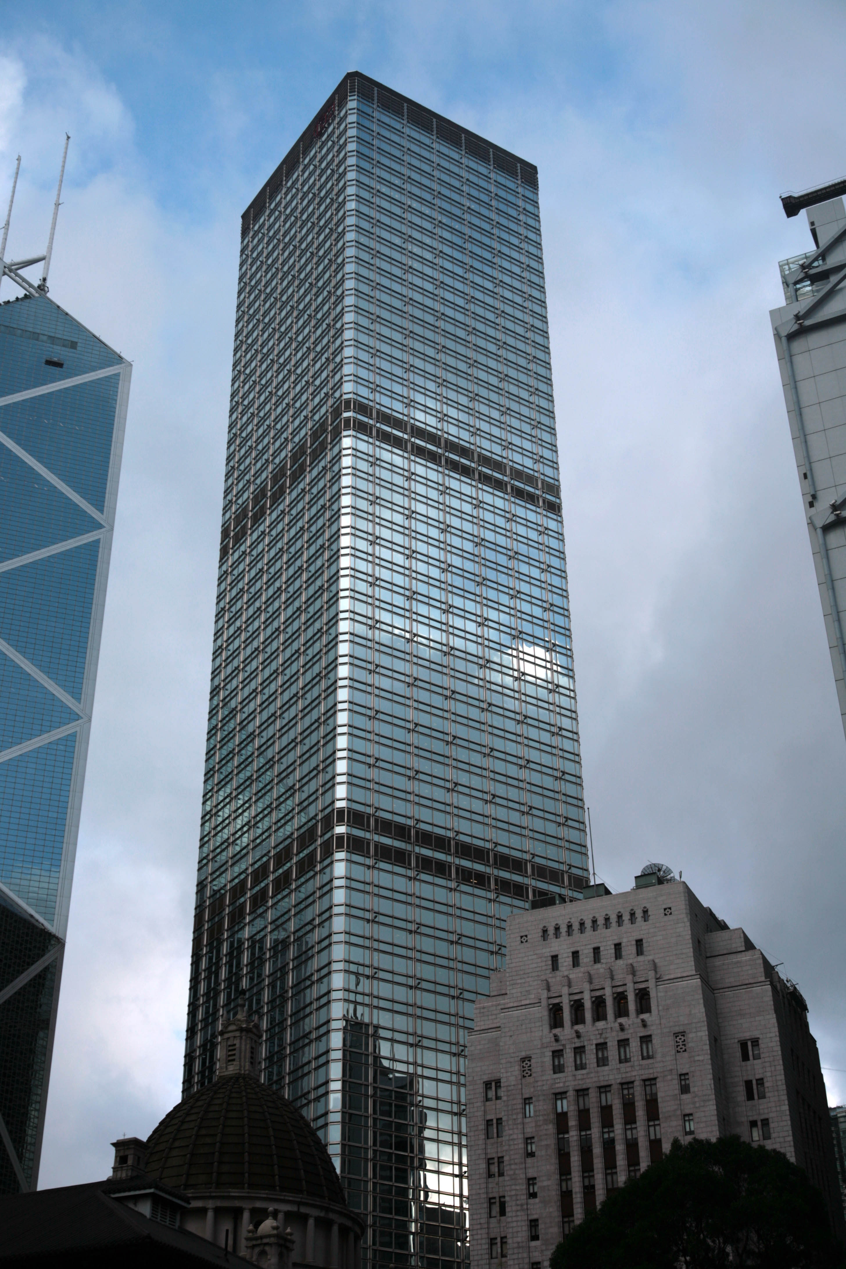 The Cheung Kong center in Hong Kong (5th Tallest Building in Hong Kong)